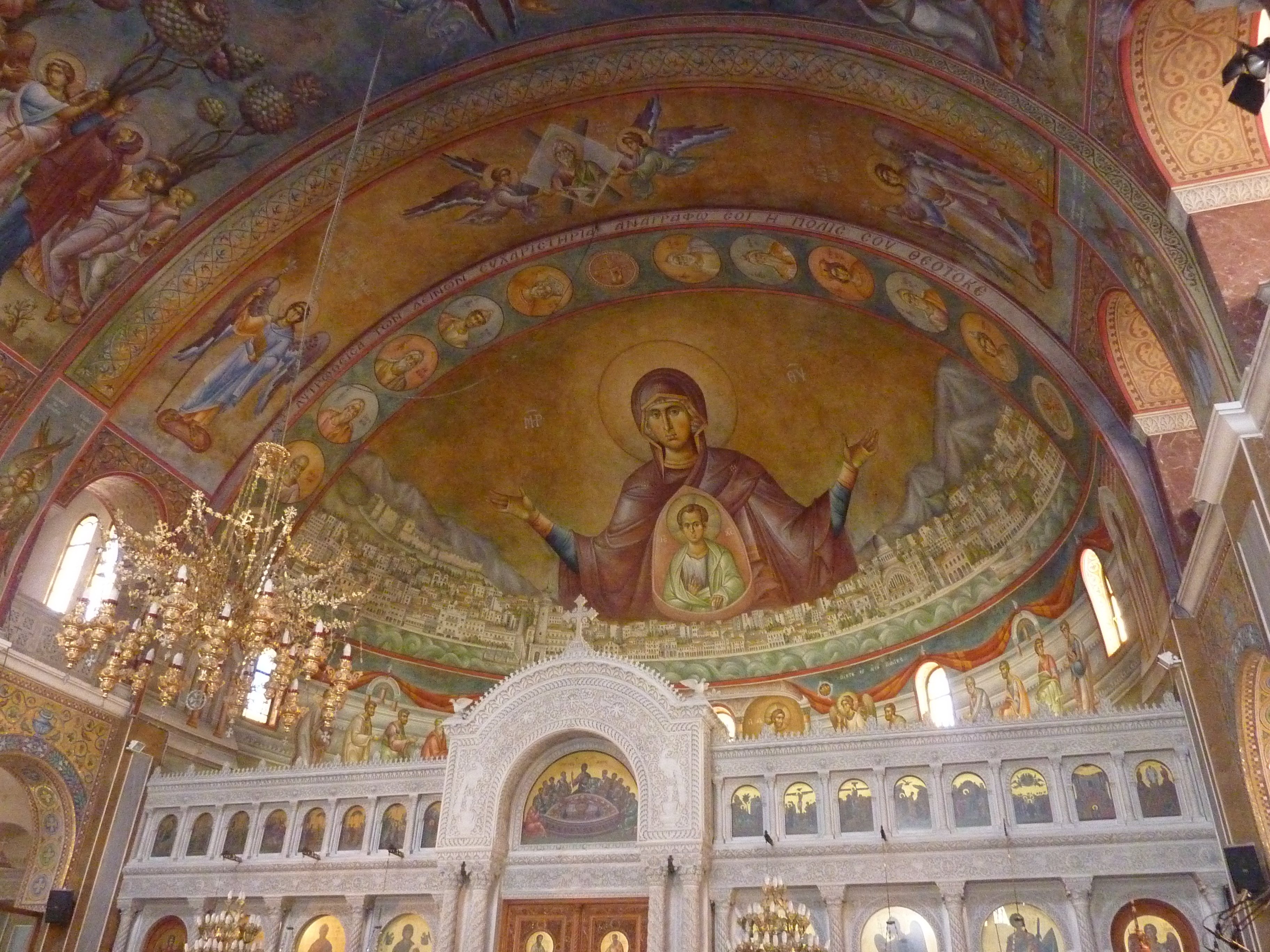 Hagios Andreas in Patras